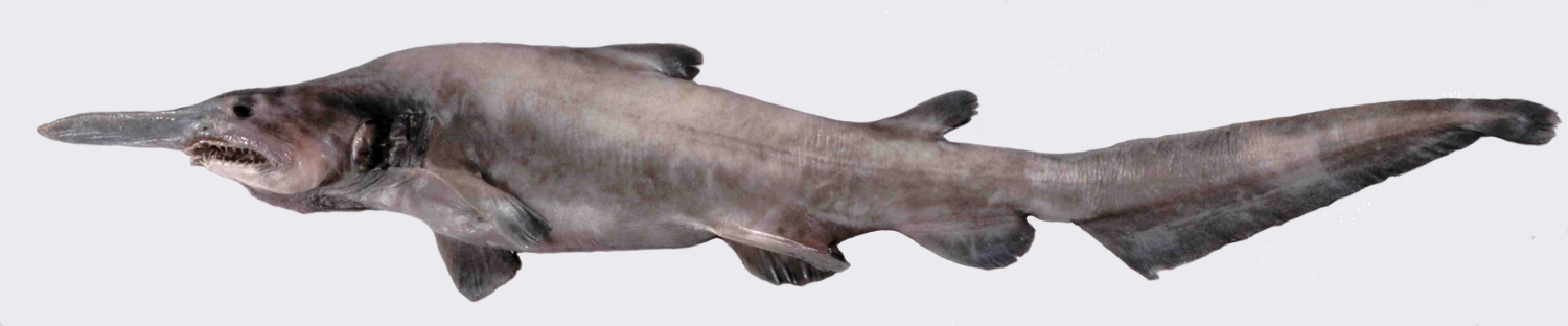 Juvenile goblin shark (Mitsukurina owstoni)